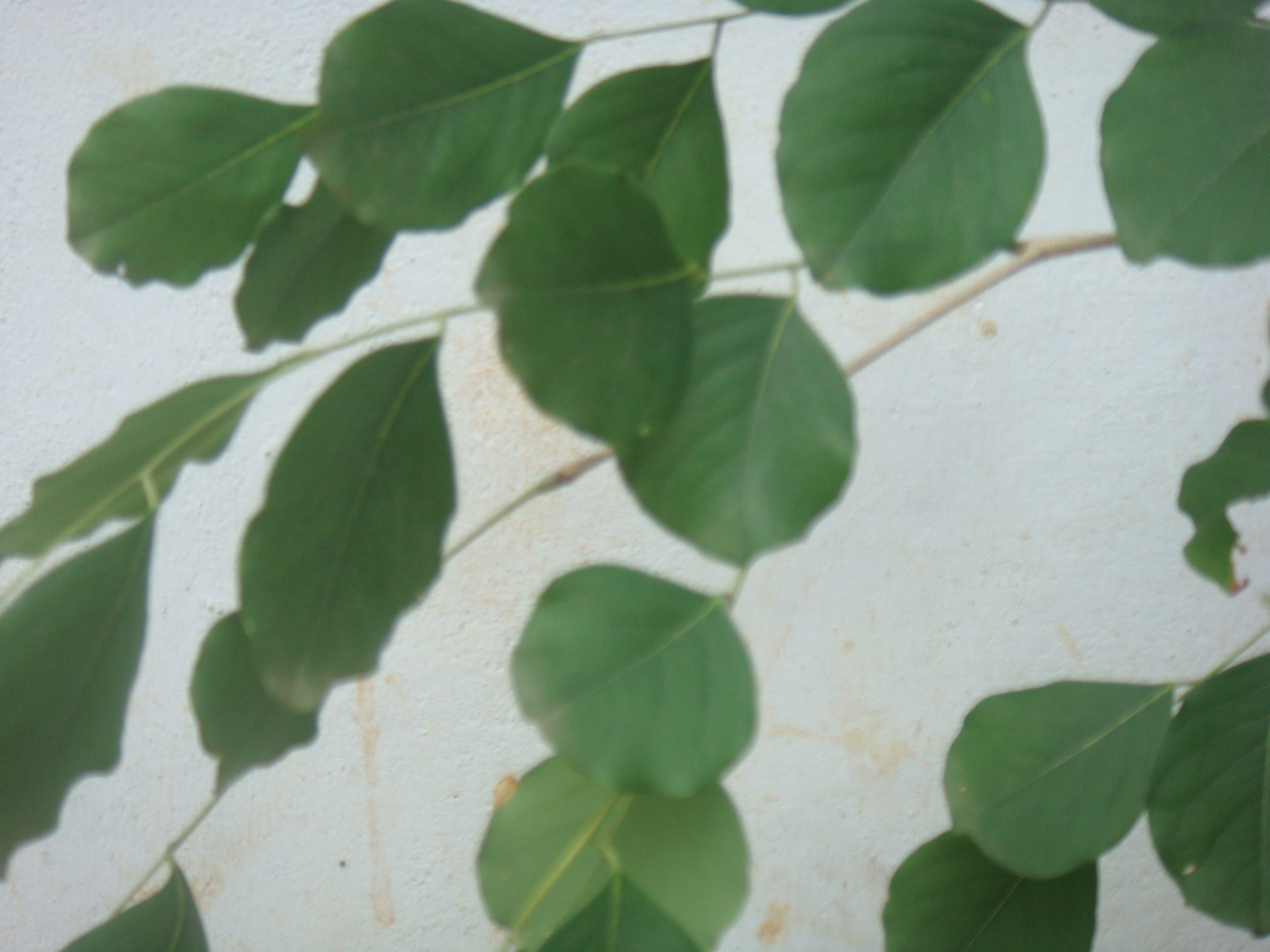 Rose wood Tree leaves (Dalbergia Latifolia)